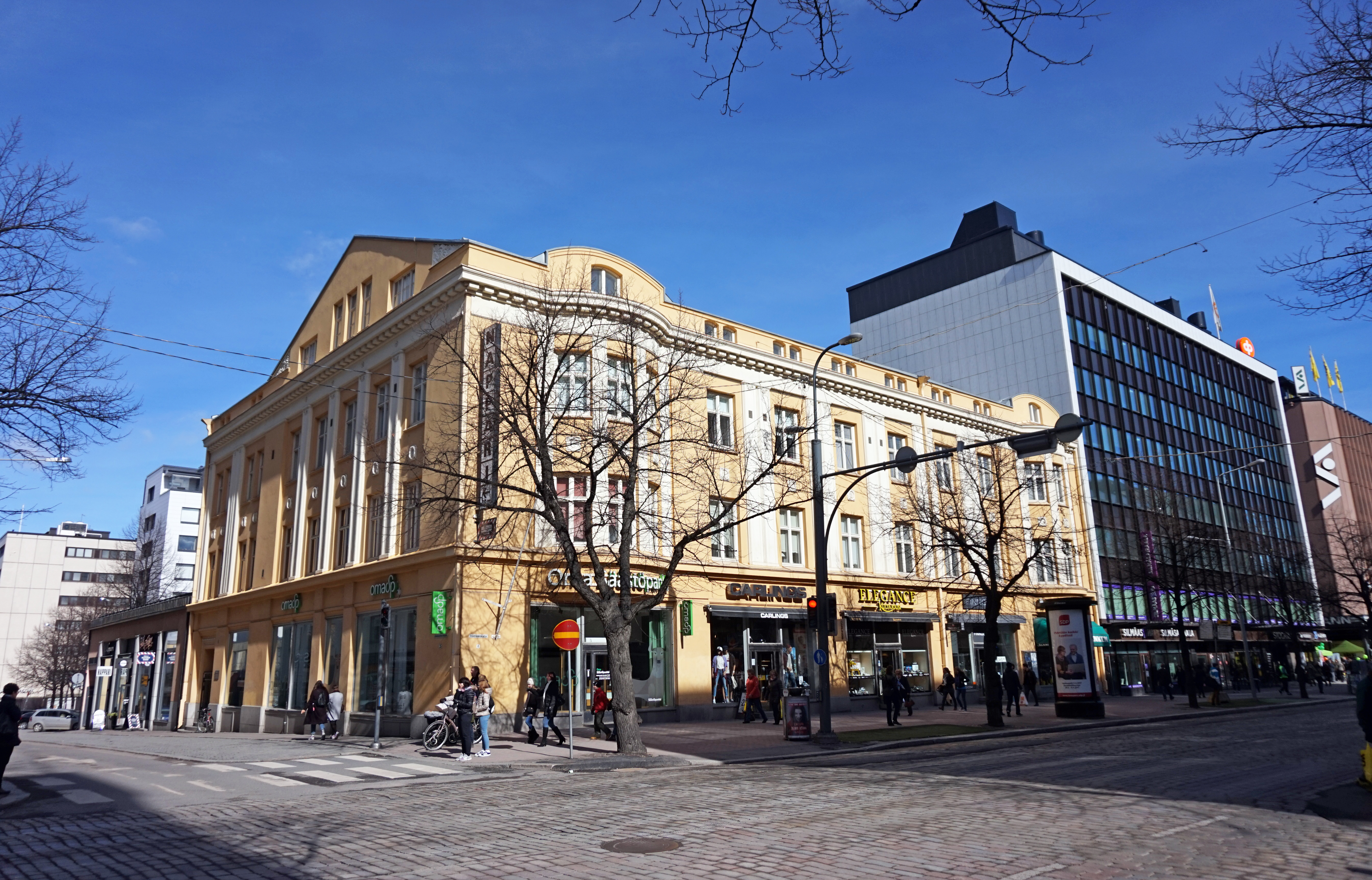 A building on the corner of the streets Aleksanterinkatu and Hämeenkatu in Tampere.This photograph was taken with a Sony ILCE-5000